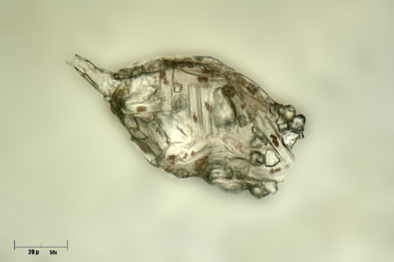 Difflugia sp.